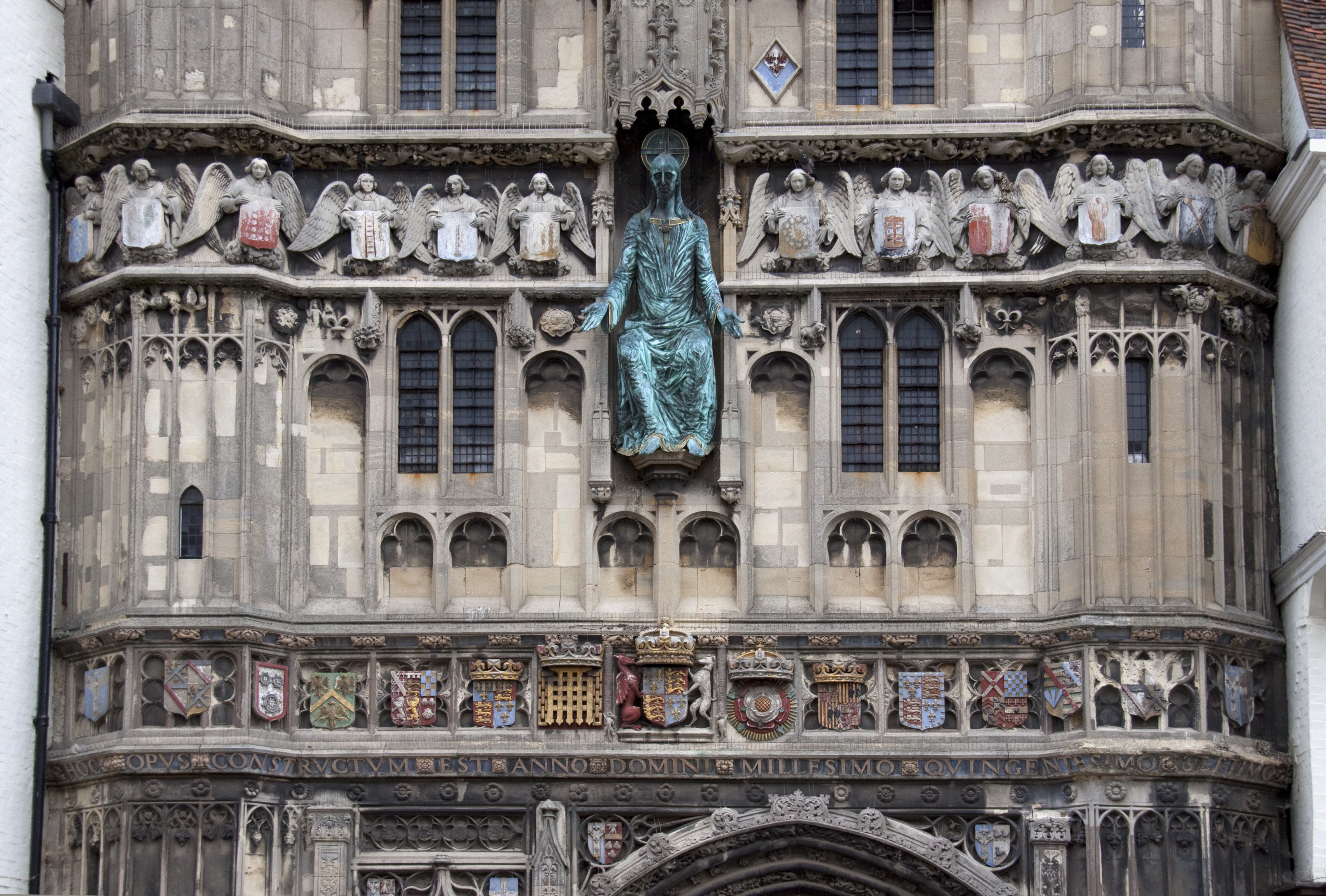 The entrance to the Cathedral Precincts, built in 1517